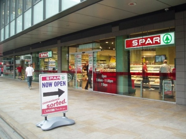 SPAR Store, City Tower, Piccadilly Gardens, Manchester